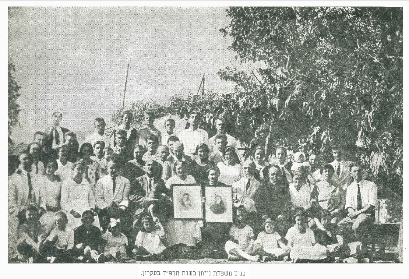 Rabbi Mordechai Niemann and his family